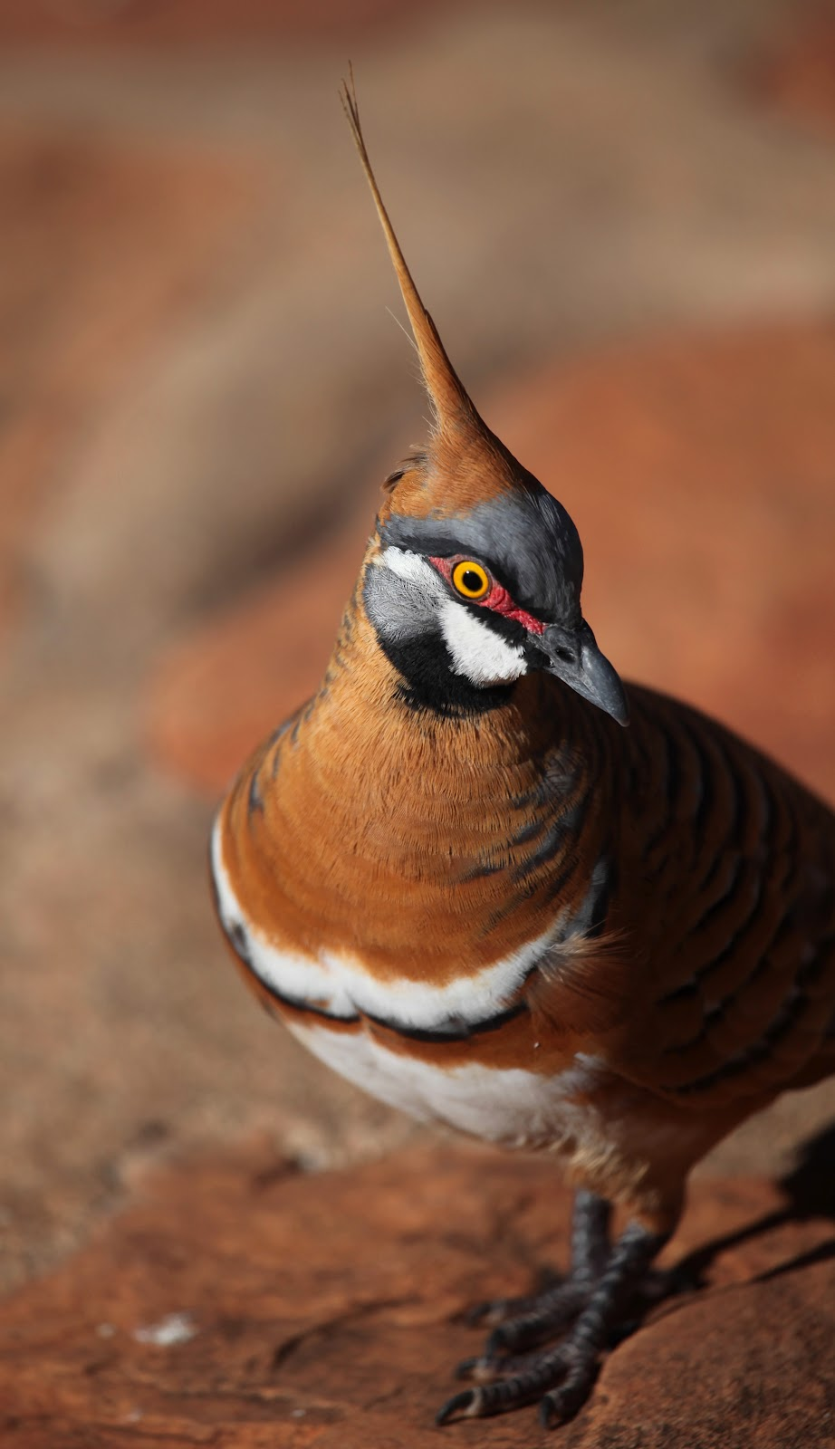 Spinifex Pigeon (Geophaps plumifera), Northern Territory, Australia